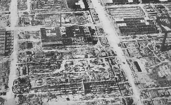 Mizushima after the 1945 air raid